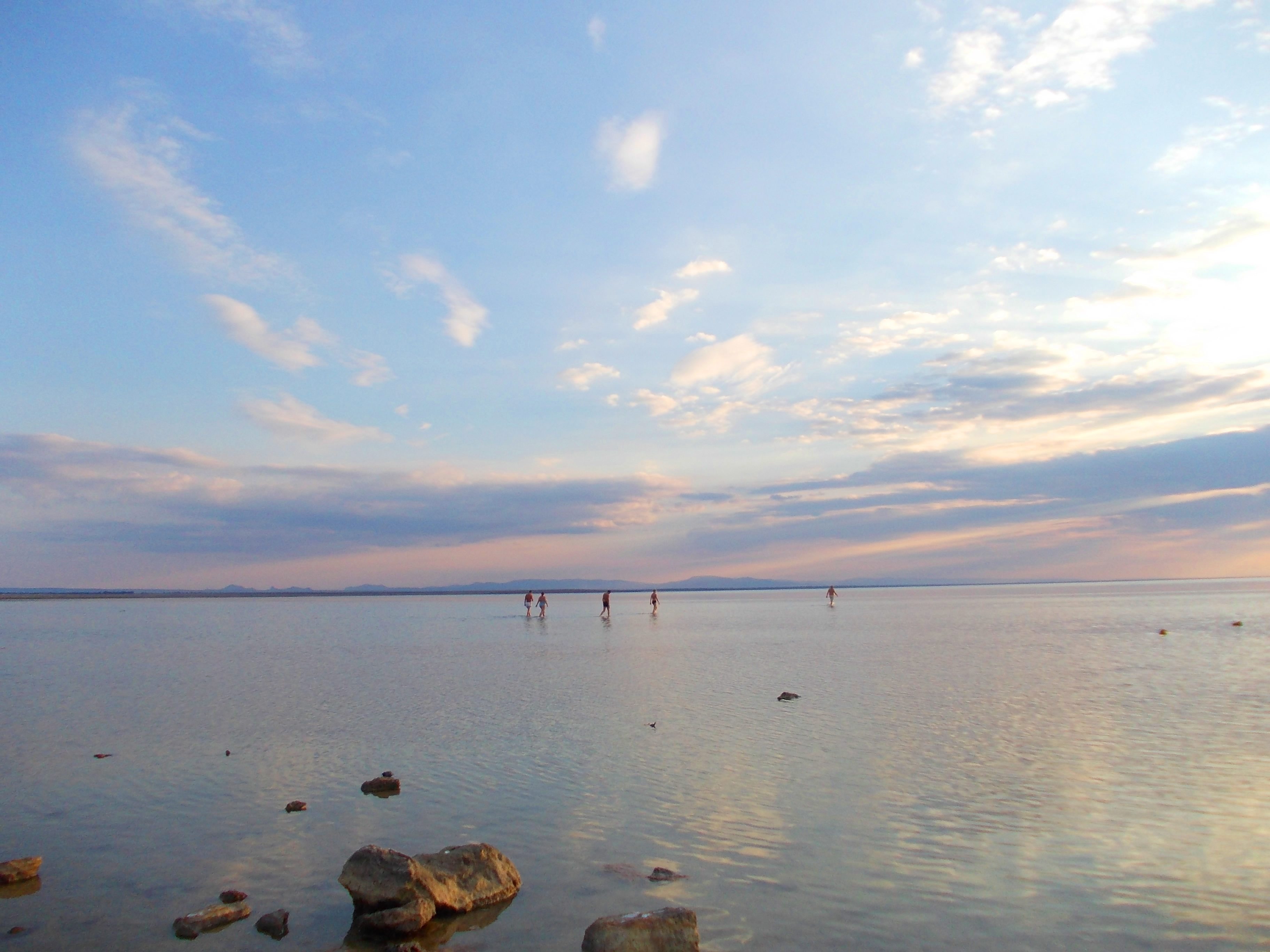 The southern part of the lake Siwash.